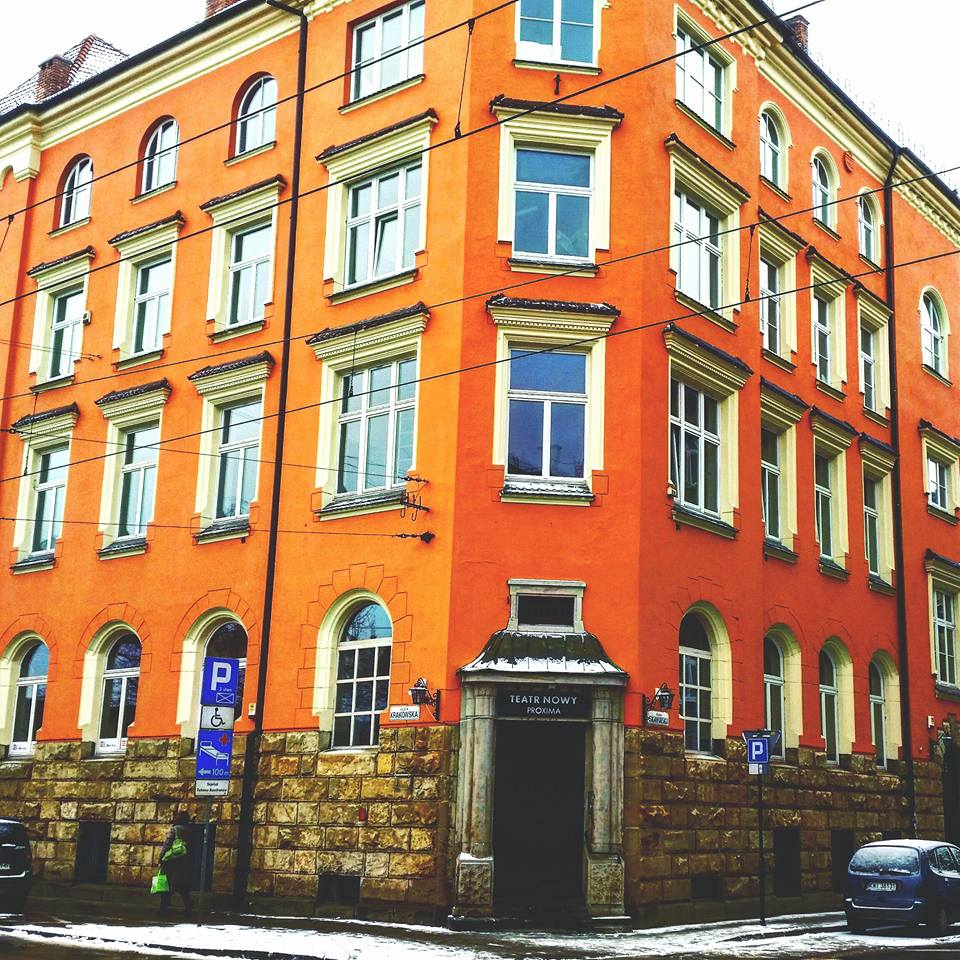 Teatr Nowy